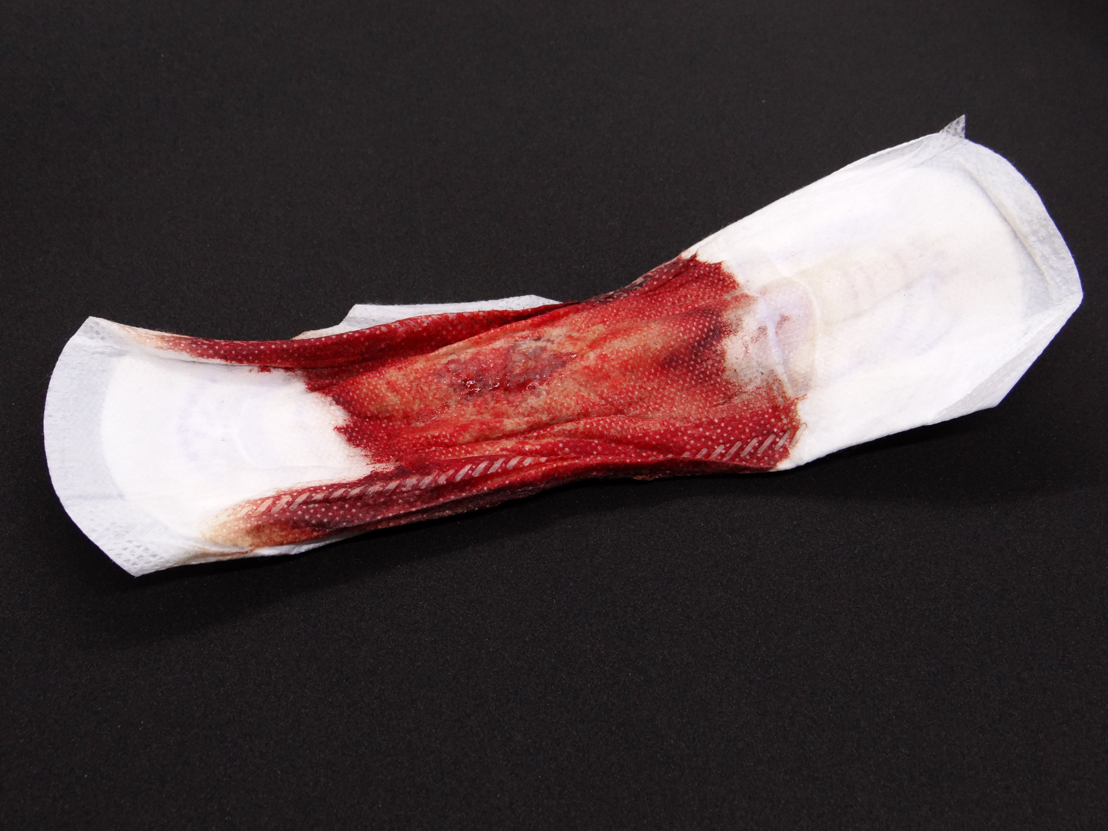 Withdrawal bleeding (or "fake periods") are different of periods because withdrawal bleeding happens when an hormonal contraception is temporarily stopped while periods are part of the menstrual cycle.